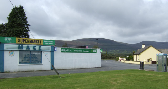 Shop and post office, Lemybrien, Co. Waterford In the distance are the Monavullagh Mountains, reaching around 2500 feet in elevation.